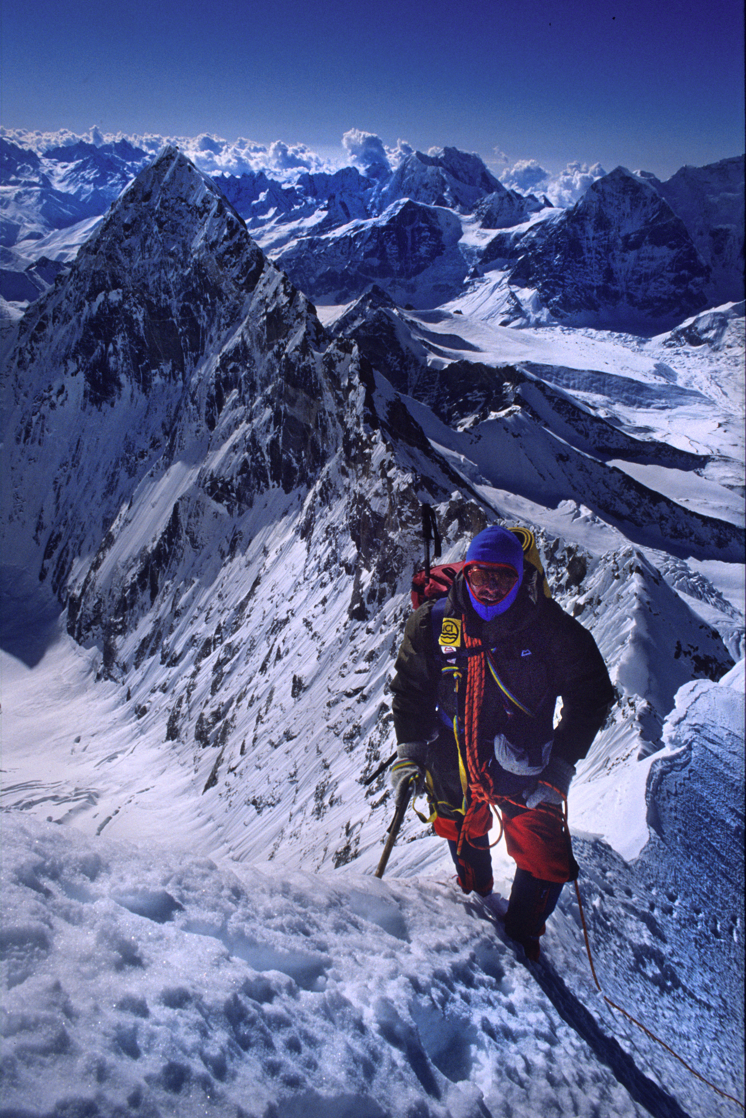 Luke Hughes climbing on Mt Xixabangma 8027m - October 1987